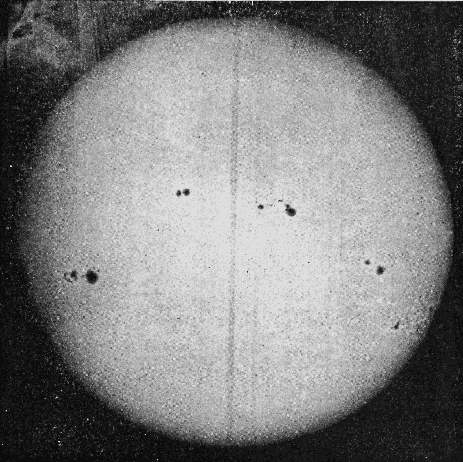 Ordinary photograph of the sun